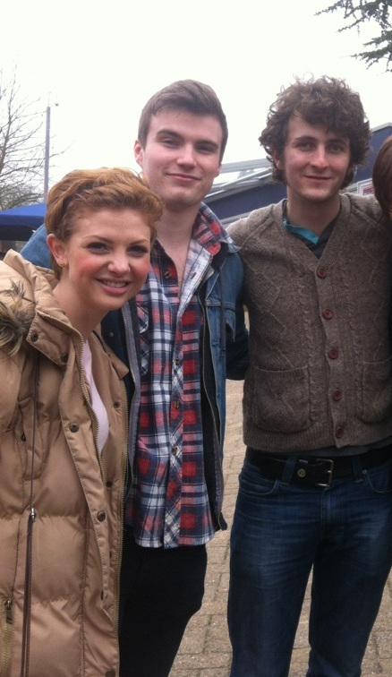 UK actors Lucy Dixon, Andrew Still and Tom Scurr